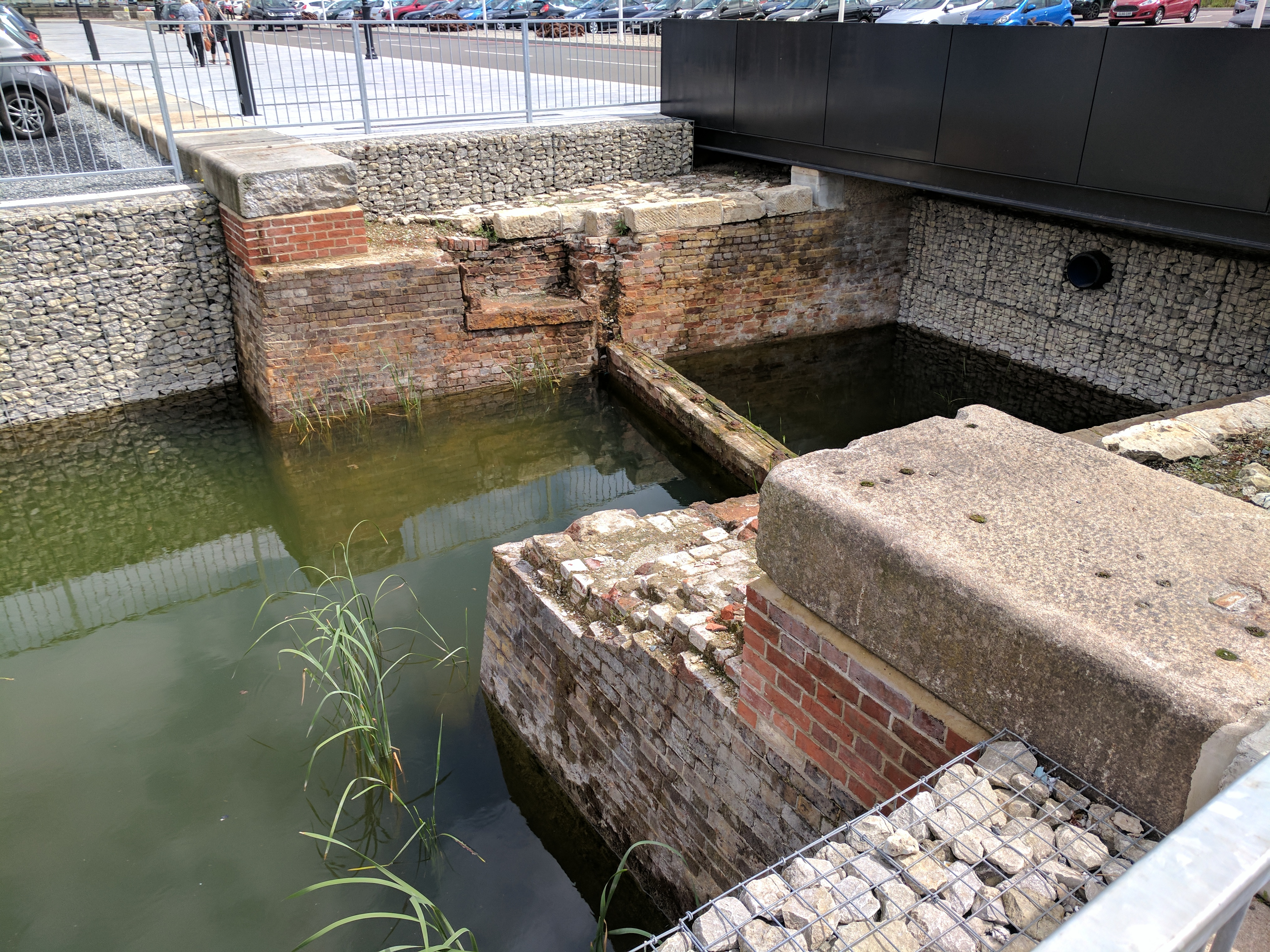 Chatham Dockyard: South Mast Pond entrance lock